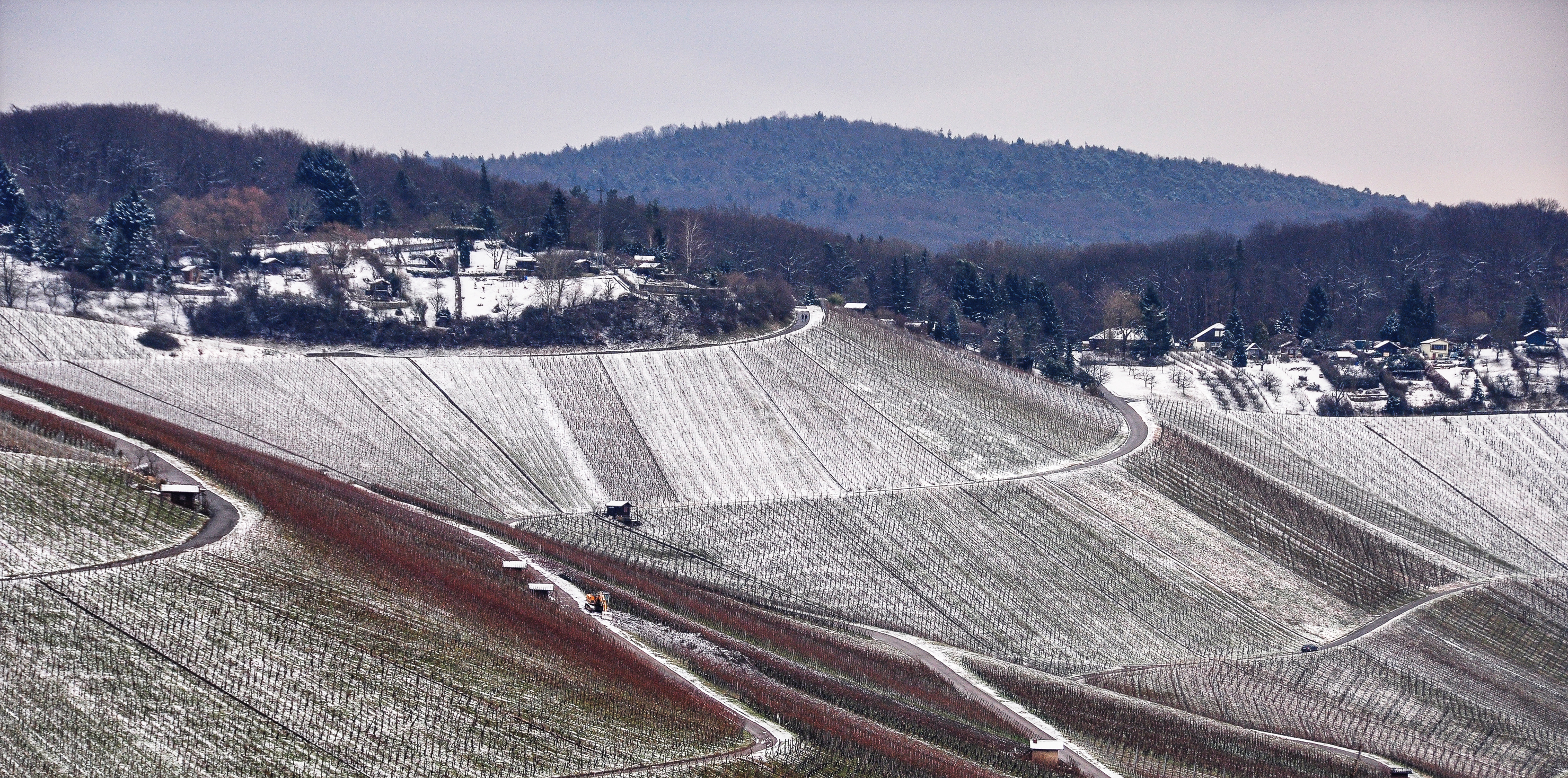 The vineyard called "Götzenberg" in winter, Stuttgart